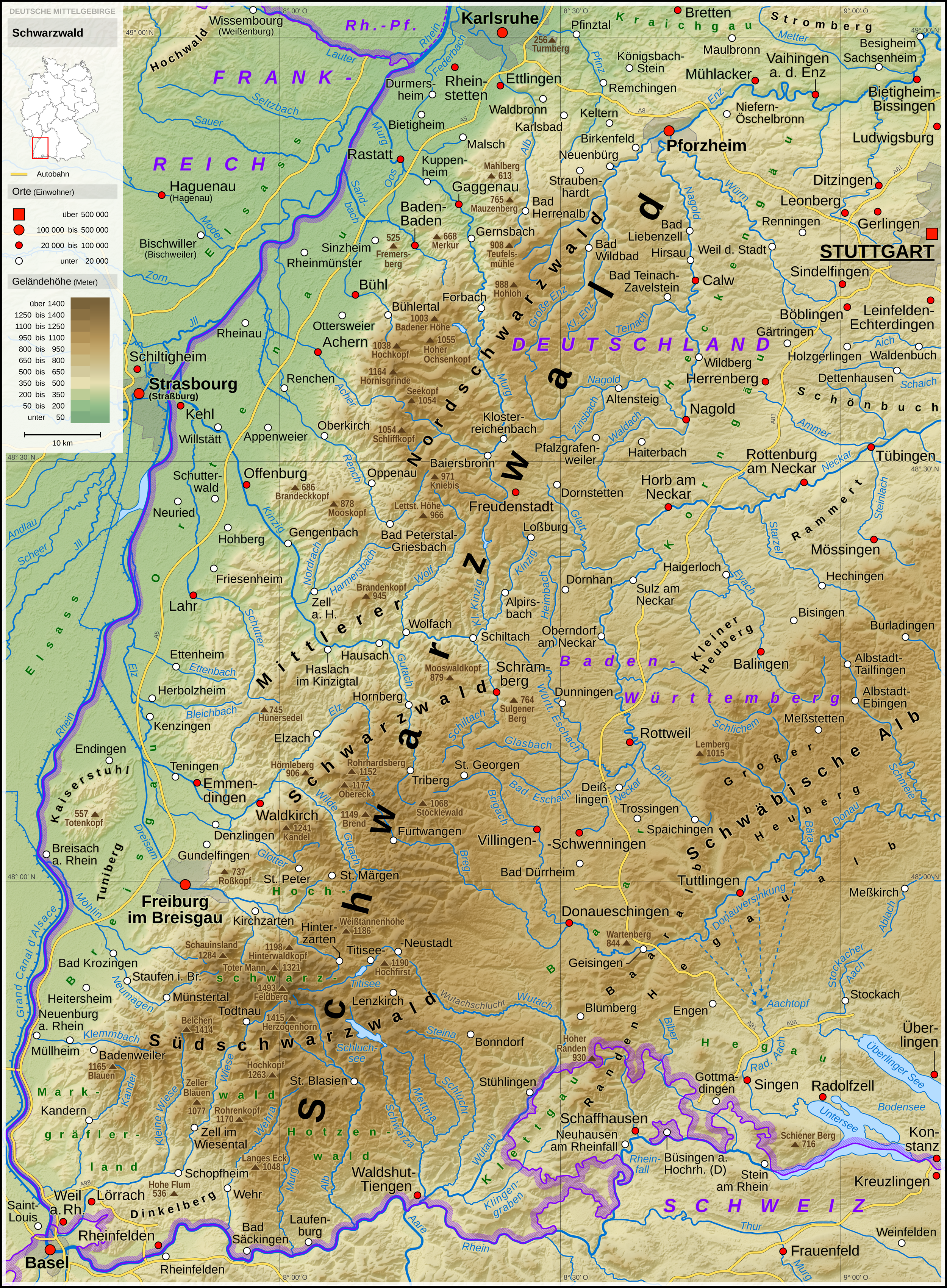 Topographic map of the Black Forest